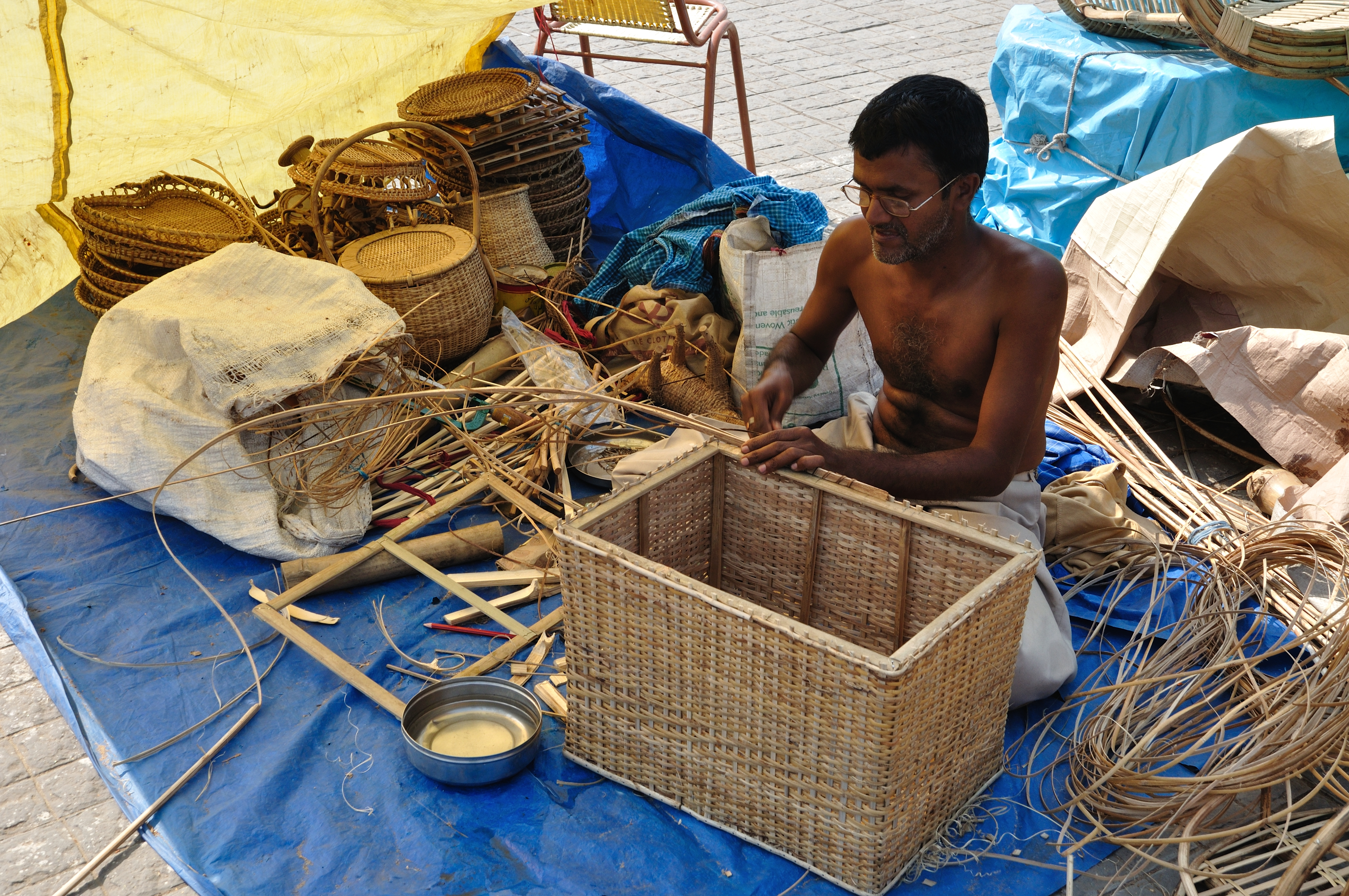 Photographed at Kolkata.